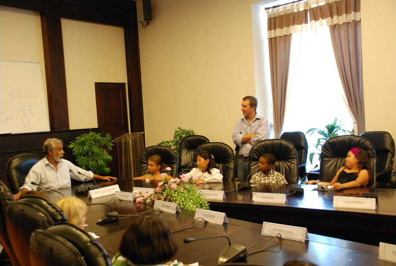 DIS - Dili International School Students Meet Prime Minister of Timor Leste (East Timor) Mr. Xanana Gusmao